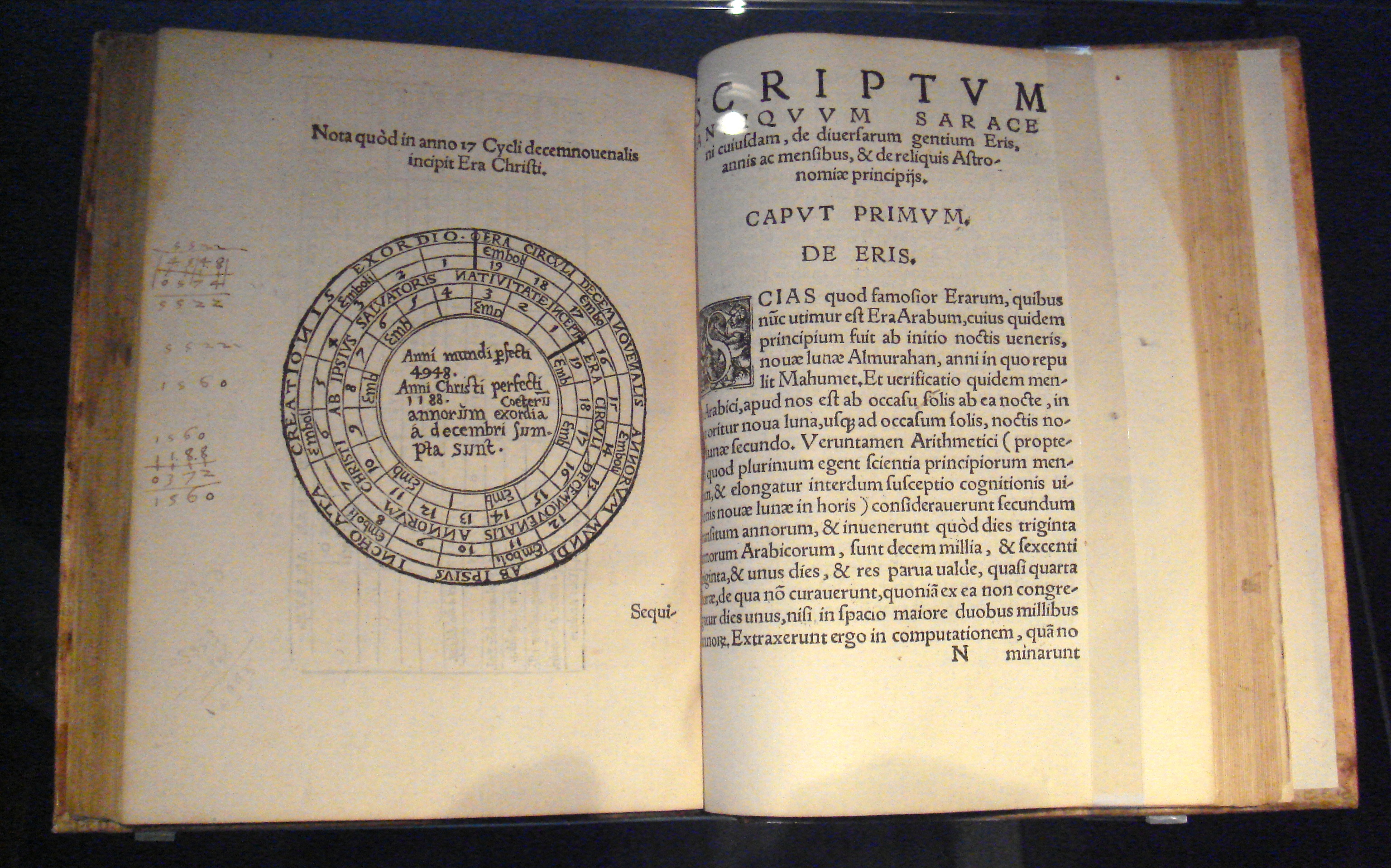 De_Ludiciis_Natiuitatum_Albohali_Nuremberg_1546.